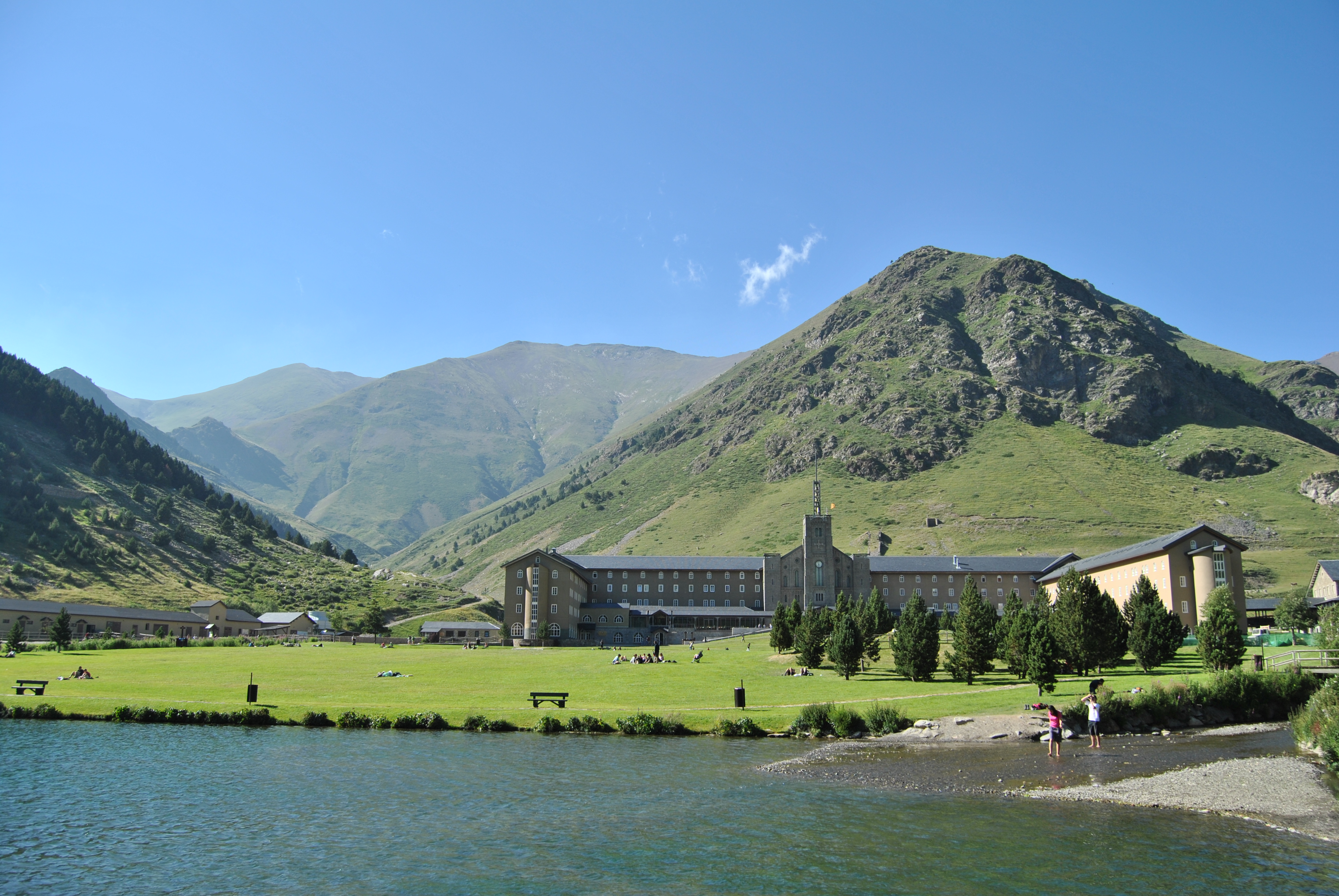 Valley of Nuria - Girona - Catalunya - Spain